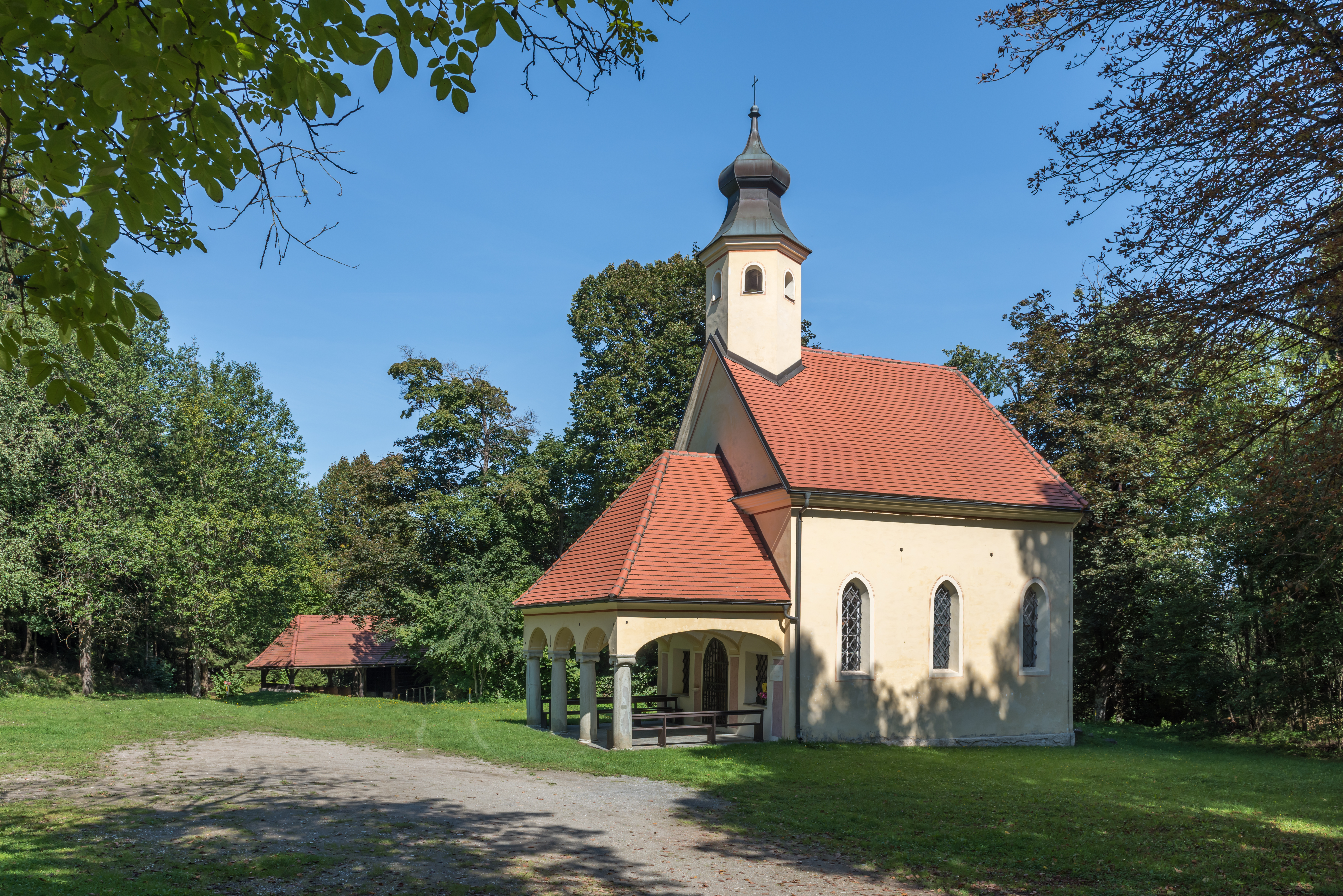 Subsidiary and pilgrimage church Seven Sorrows of Mary at Wolschart, municipality Sankt Georgen am Längsee, district Sankt Veit, Carinthia, Austria, EU